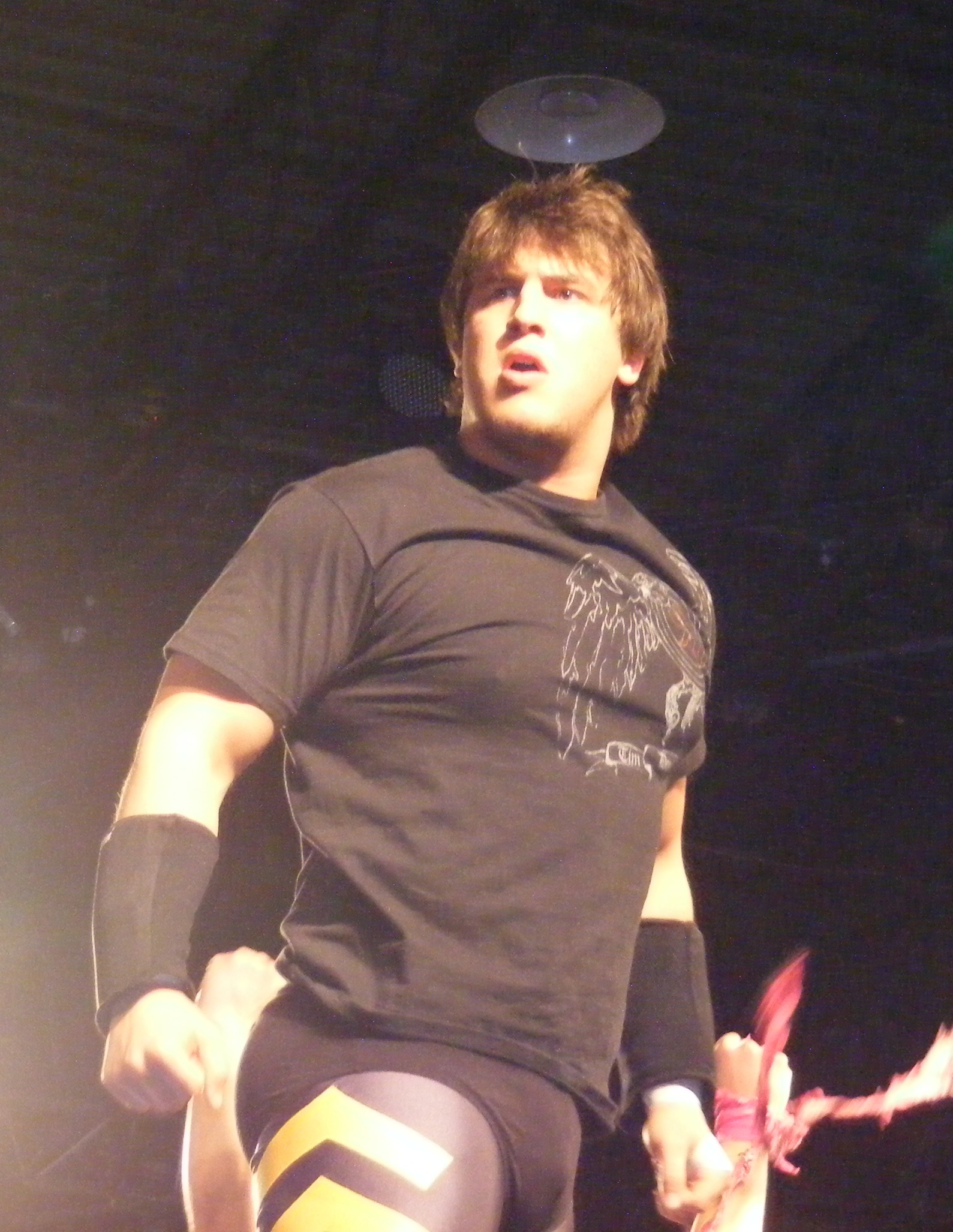 Professional wrestler Tim Donst at Chikara's King of Trios Night 1 show in Philadelphia on April 23, 2010.